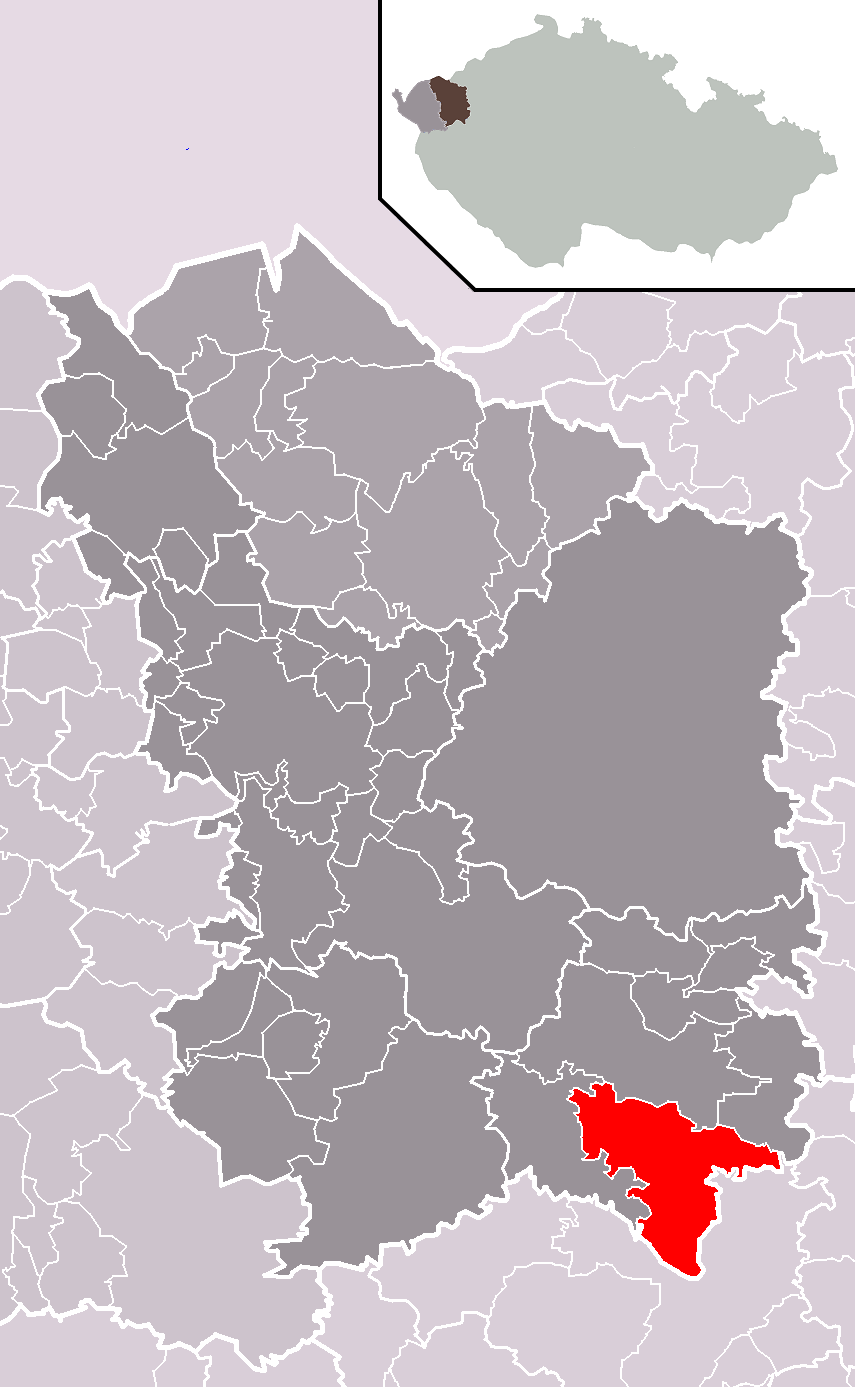 Location of Pšov municipality within Karlovy Vary District and administrative area of Karlovy Vary as a Municipality with Extended Competence.